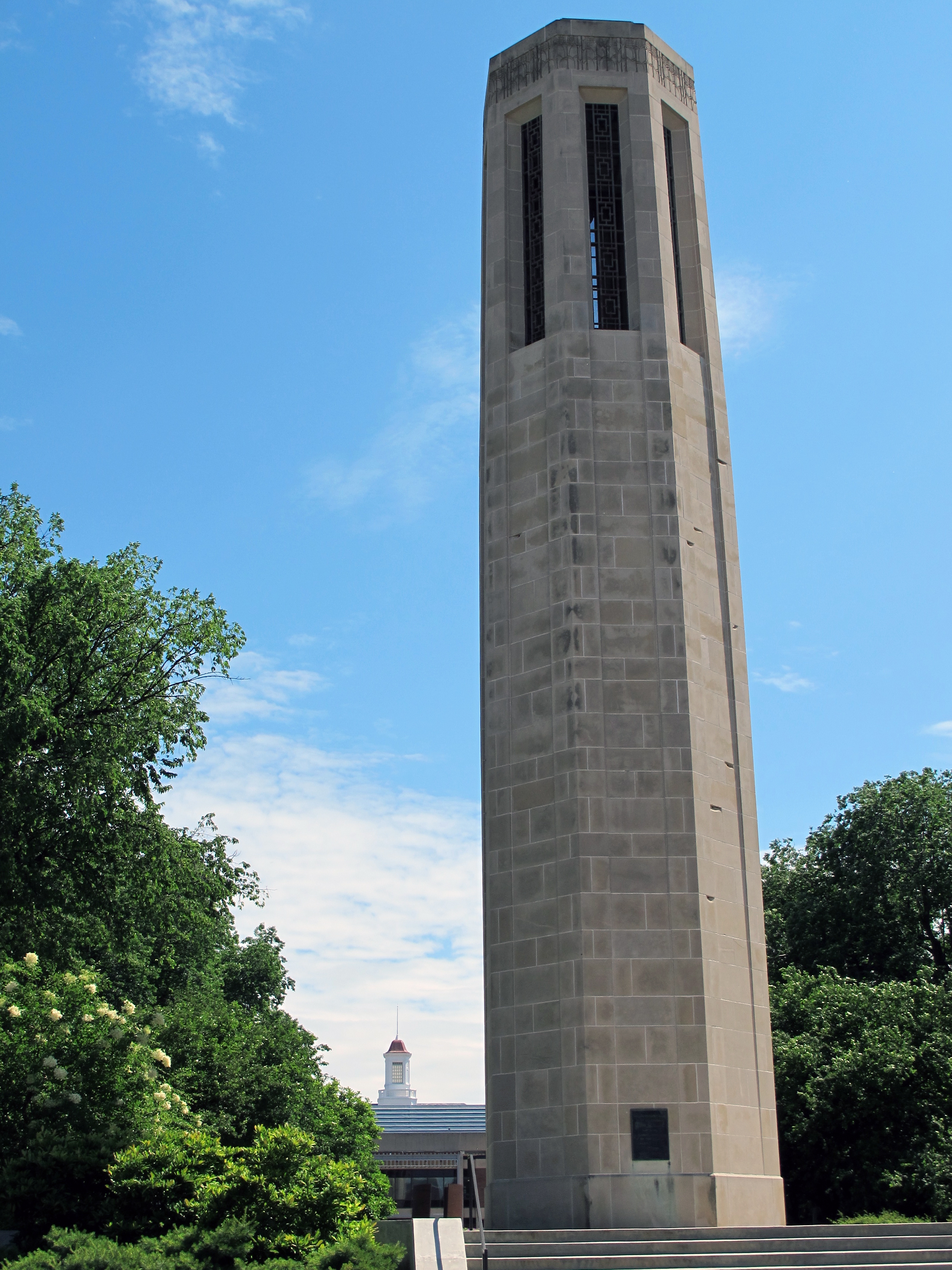 Photo of the Ralph Mueller Carillon Tower (1306 "U" Street; foreground, right of center) and Don L. Love Memorial Library (1248/1300 "R" Street; background, bottom-left of center). Both are on the University of Nebraska-Lincoln city campus in Lincoln, Nebraska. Photo is facing south-southwest from the north side of "U" Street.